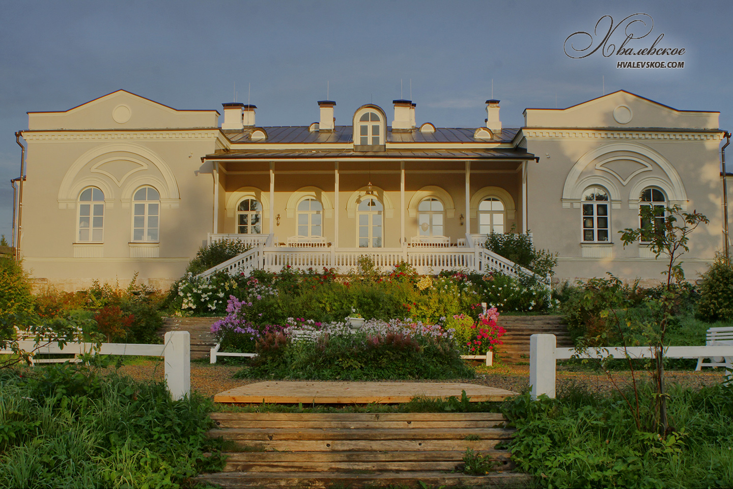 Garden of Hvalevskoe manor in Russia